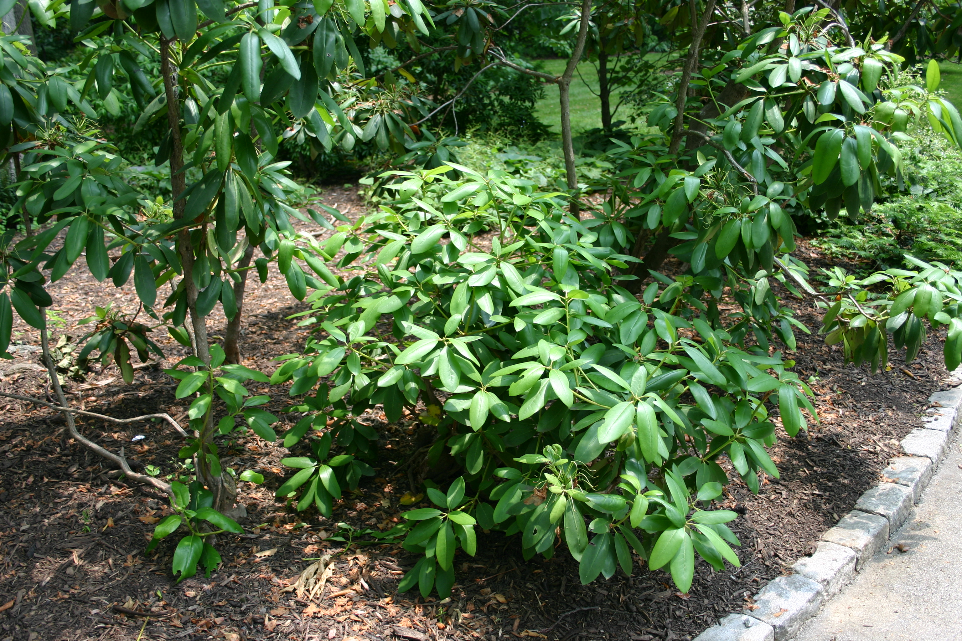 Rhododendron maximum regrowth 15 months after being cut to the base